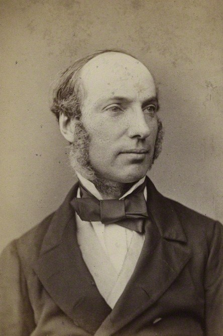 Photograph of George Young, Lord Young (1819–1907), Scottish politician and judge.